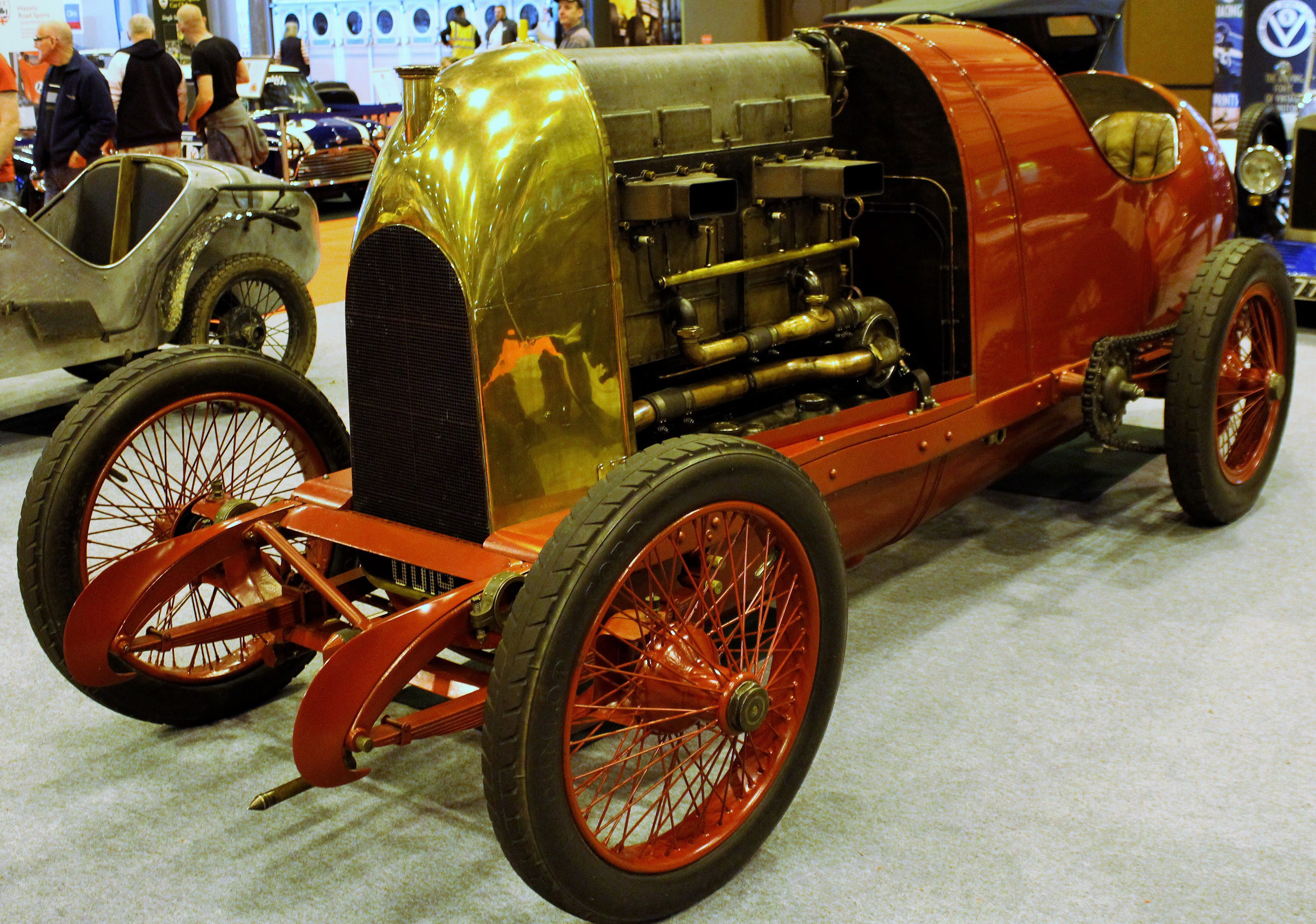 NEC Classic car show 2015